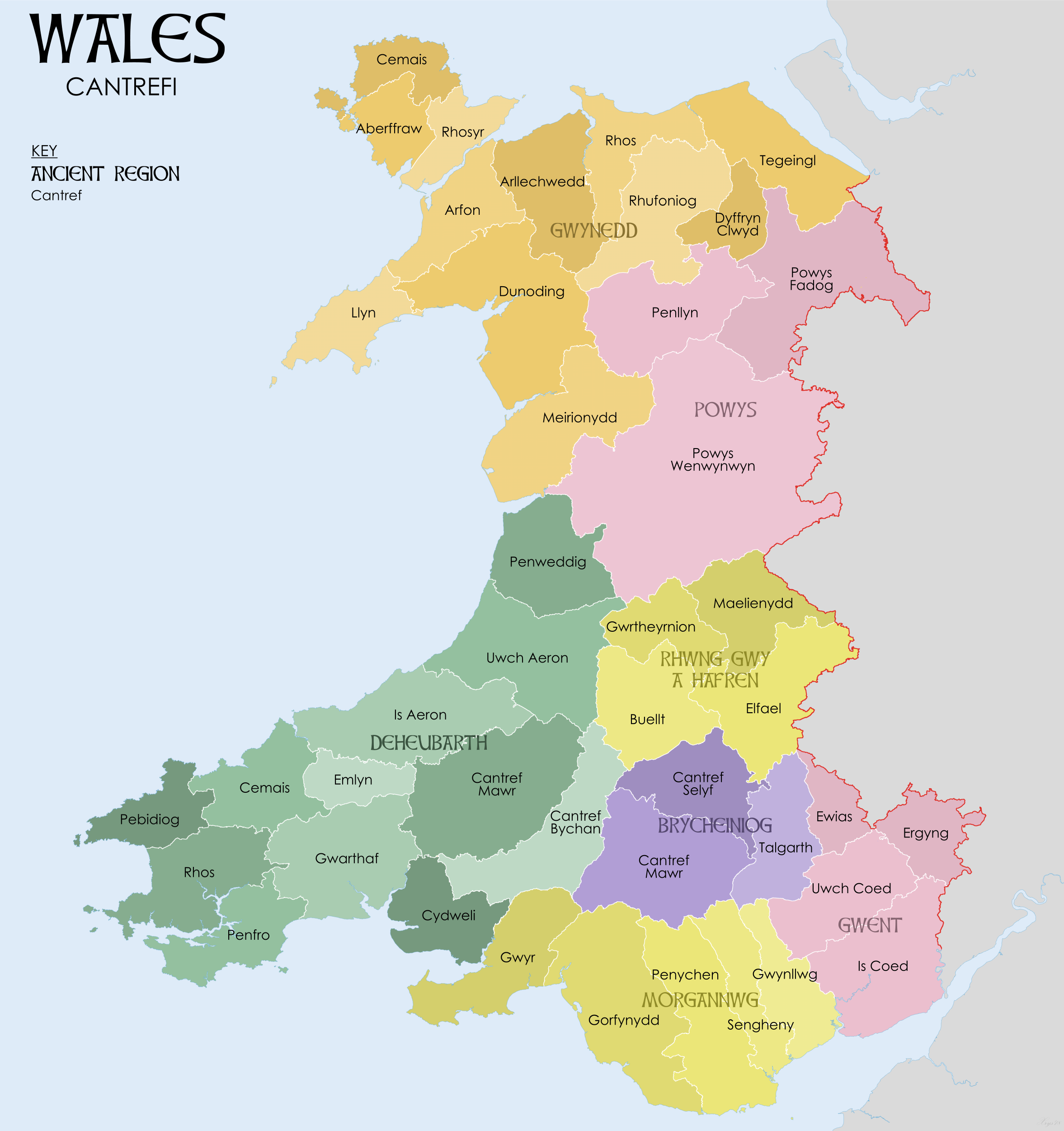 Map of the cantrefi of Medieval Wales. Source data: RCAHMW Mapping the Medieval Cantrefi and Commotes of Wales ( South Wales and the Border in the Fourteenth Century (1933) W.M.Rees. Kain, R.J.P., and Oliver, R.R. (2001) "Historic parishes of England and Wales".